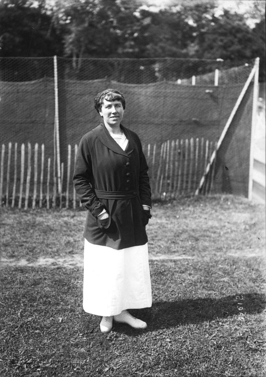 Belgian tennis player Anne de Borman (1881-1962), at the 1914 World Hardcourt Championships at Paris